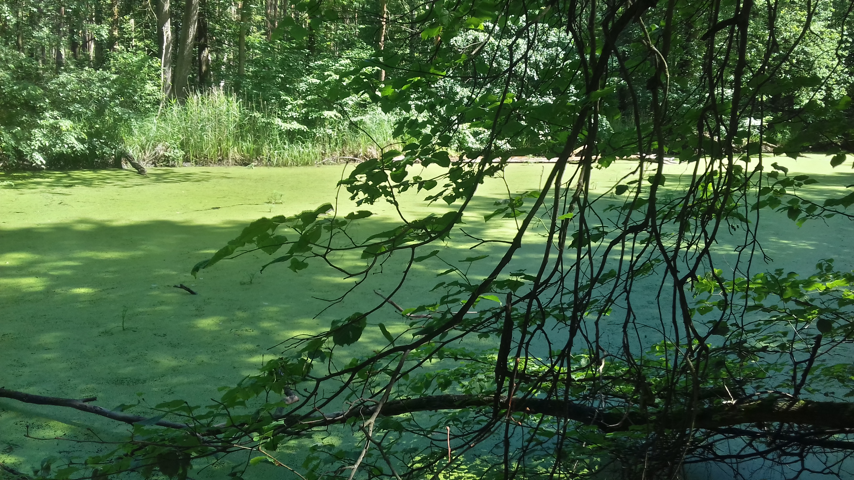 Remains of medieval fortification in former village Kří. Central Bohemian Region, municipality Kersko, Czech Republic